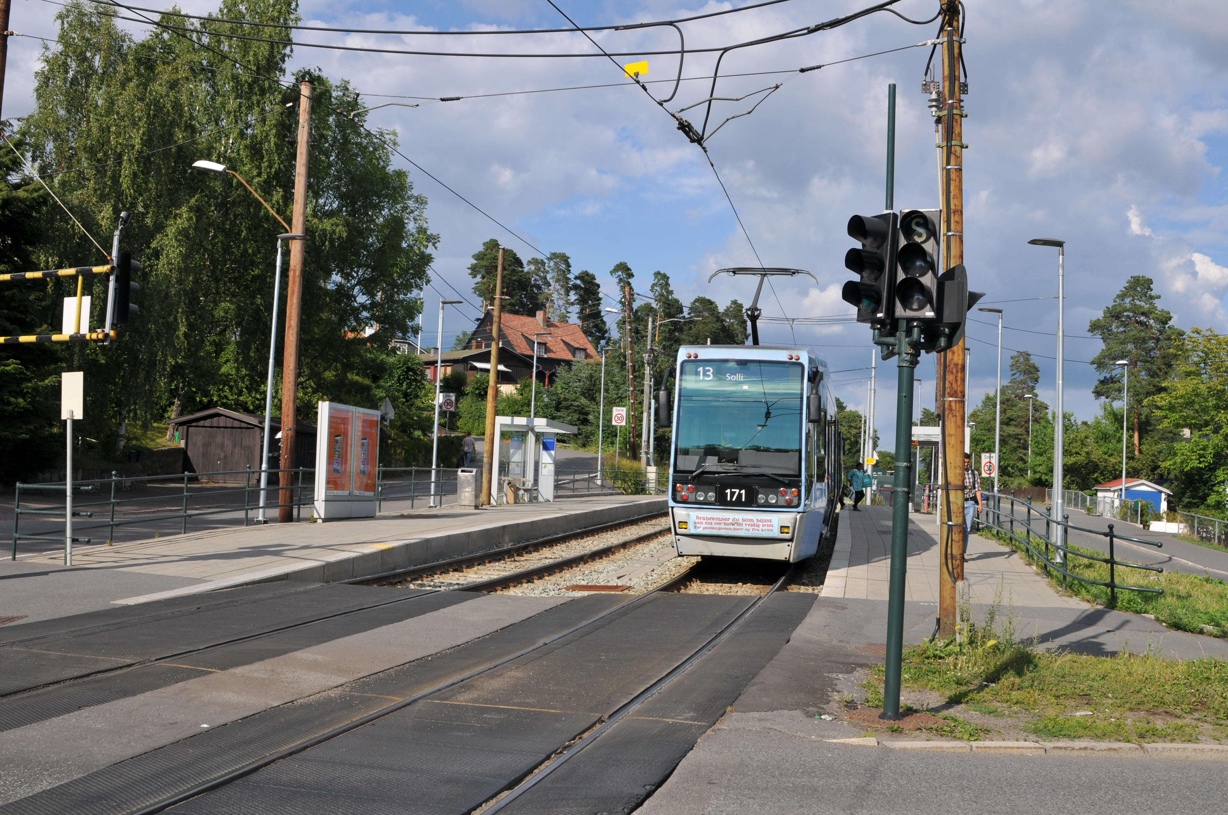 Furulund holdeplass from Vækerødveien